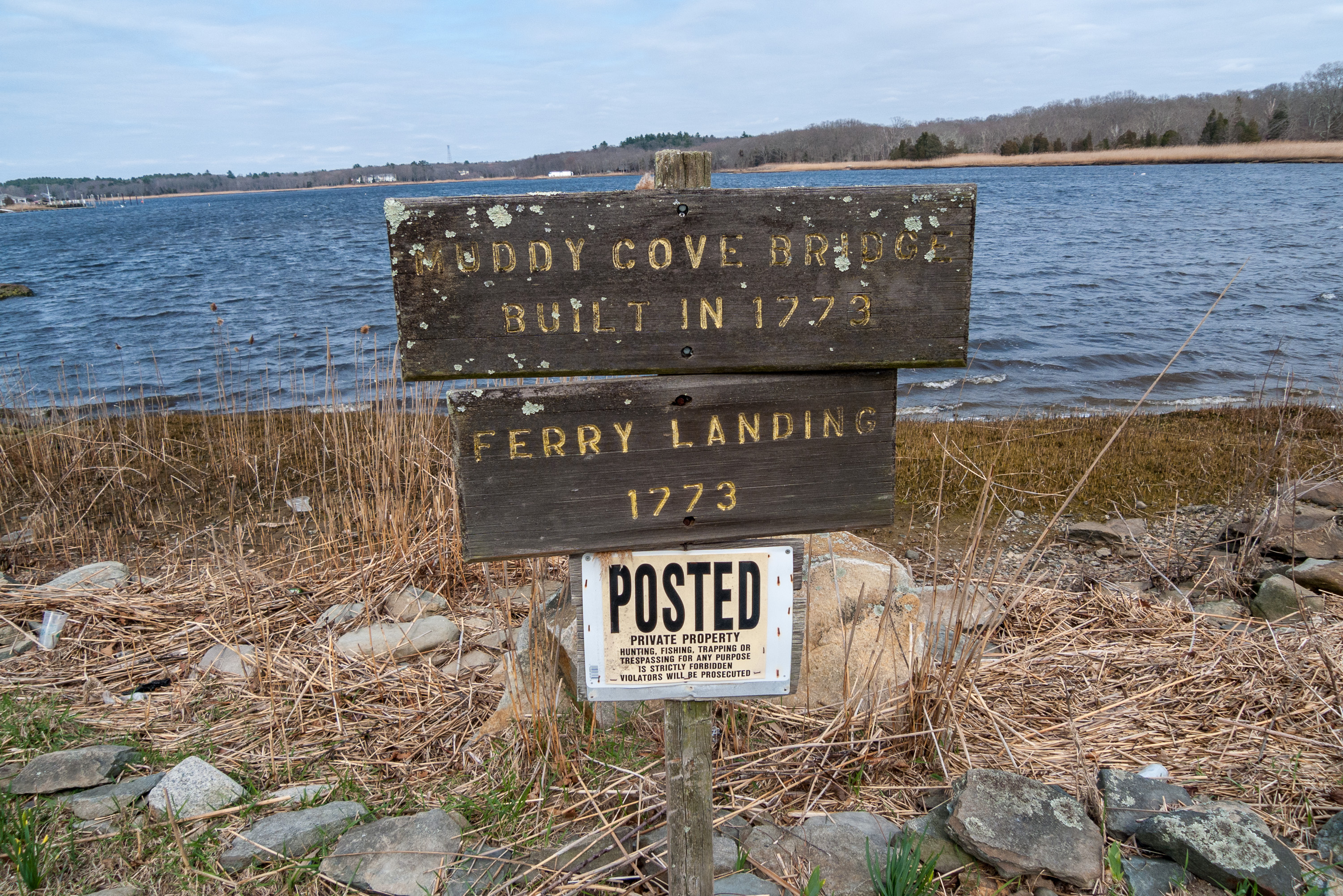 Dighton Wharves historic marker. Muddy Cove Bridge and Ferry Landing 1773. Taunton River in the background.